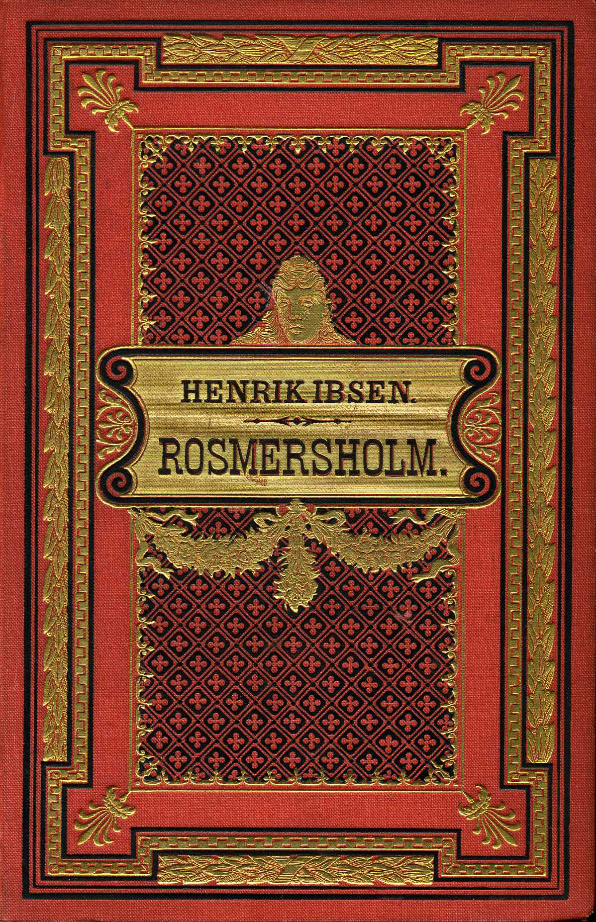 Rosmersholm by Henrik Ibsen, Copenhagen, Gyldendal, 1886